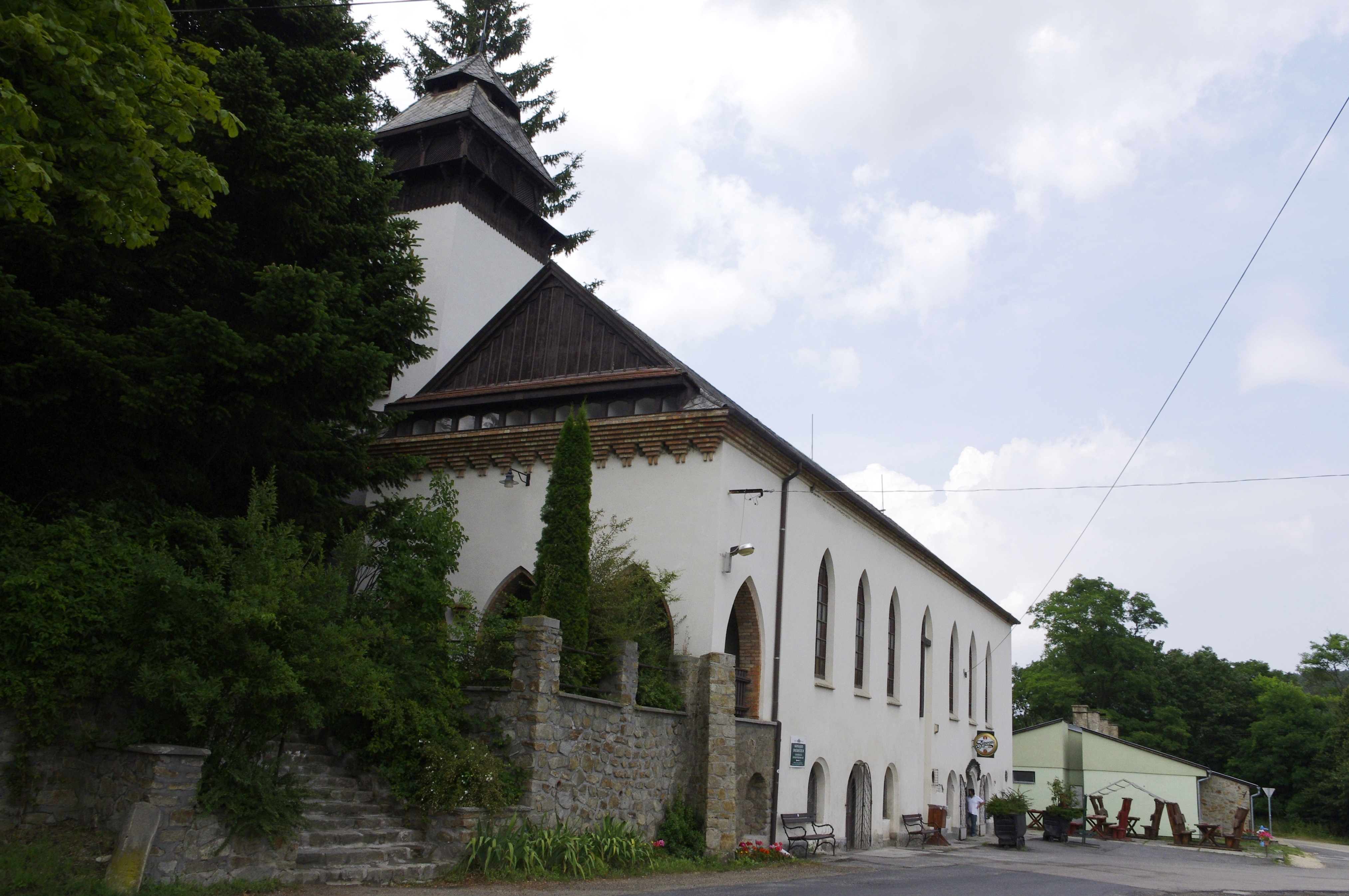 Brennbergbánya, Hungary